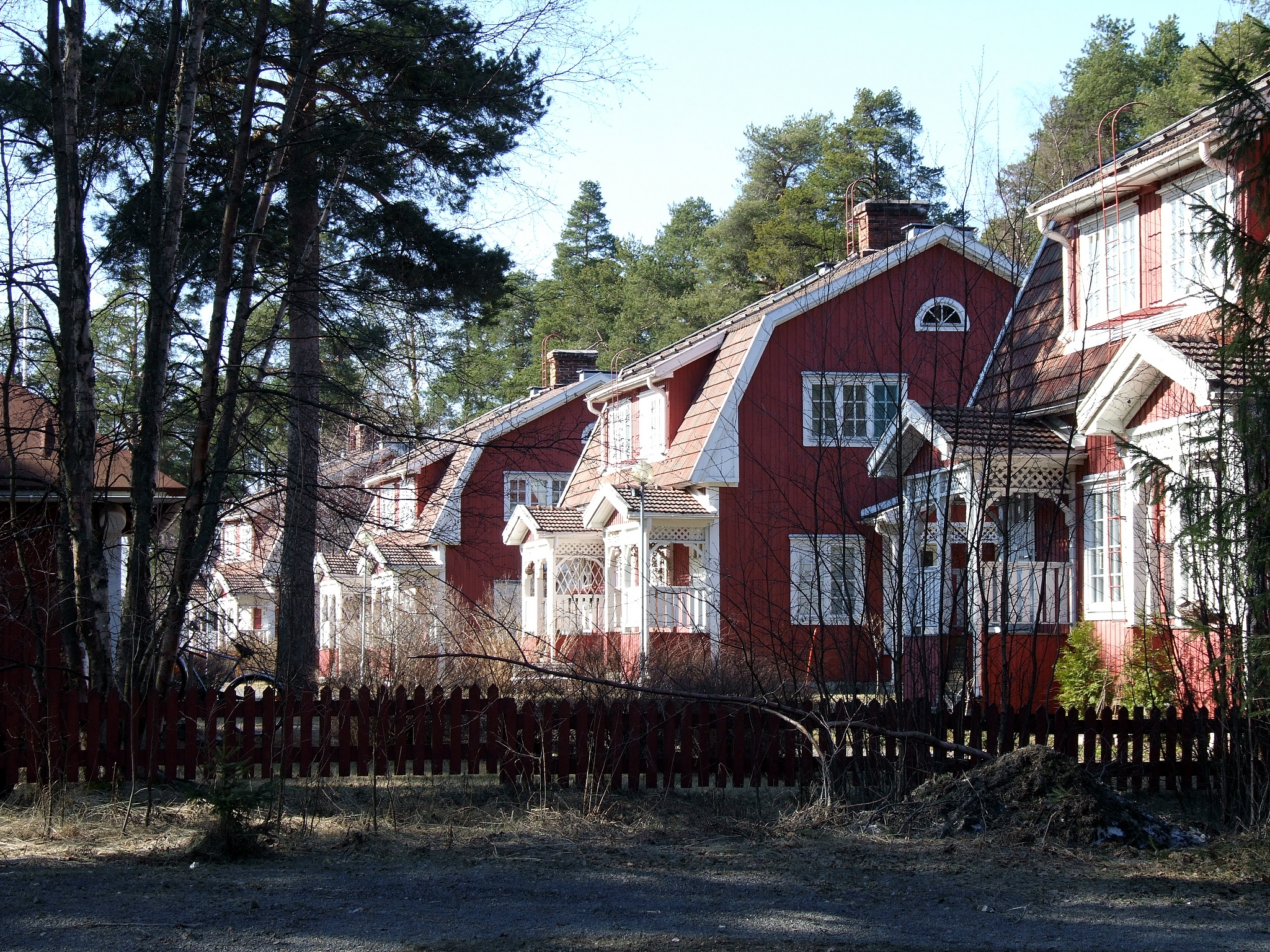 "Porila" apartment buildings for sawmill workers in Pateniemi, Oulu, Finland.